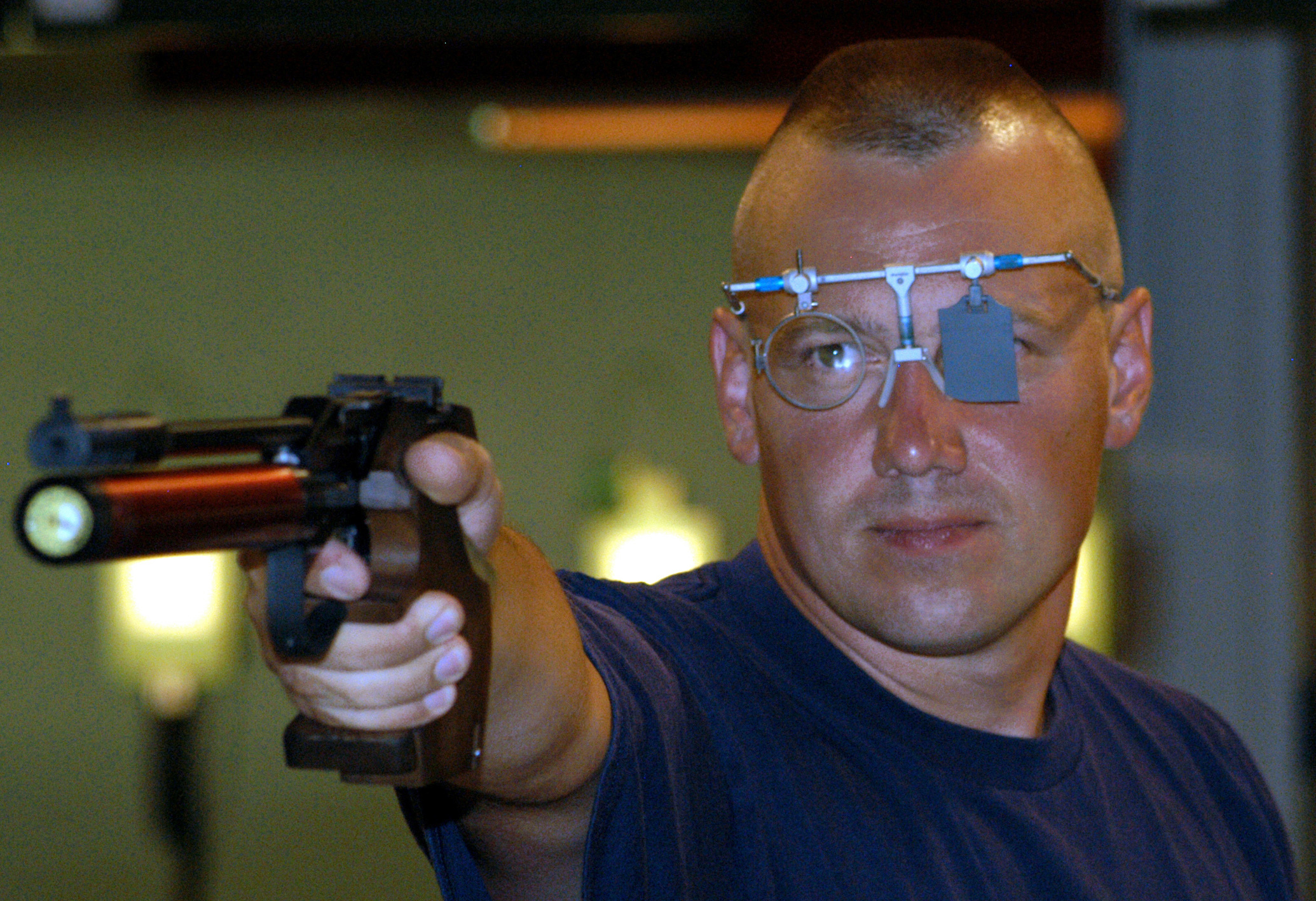 U.S. Army World Class Athlete Program pistol shooter Sgt. 1st Class Daryl Szarenski, seen here practicing at Fort Benning, Ga., won a gold medal in 10-meter air pistol and silver in 50-meter free pistol at the 2011 Pan American Games in Guadalajara, Mexico. U.S. Army photo by Tim Hipps, IMCOM Public Affairs